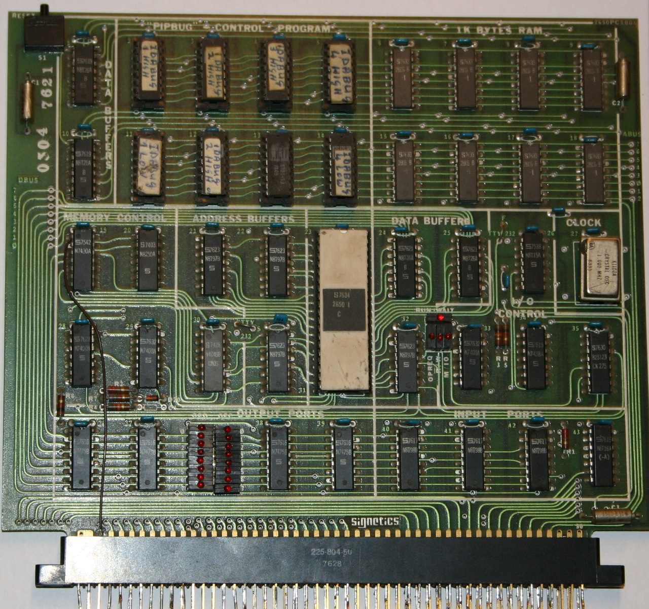 Signetics 2650 single-board evaluation microcomputer (1976)